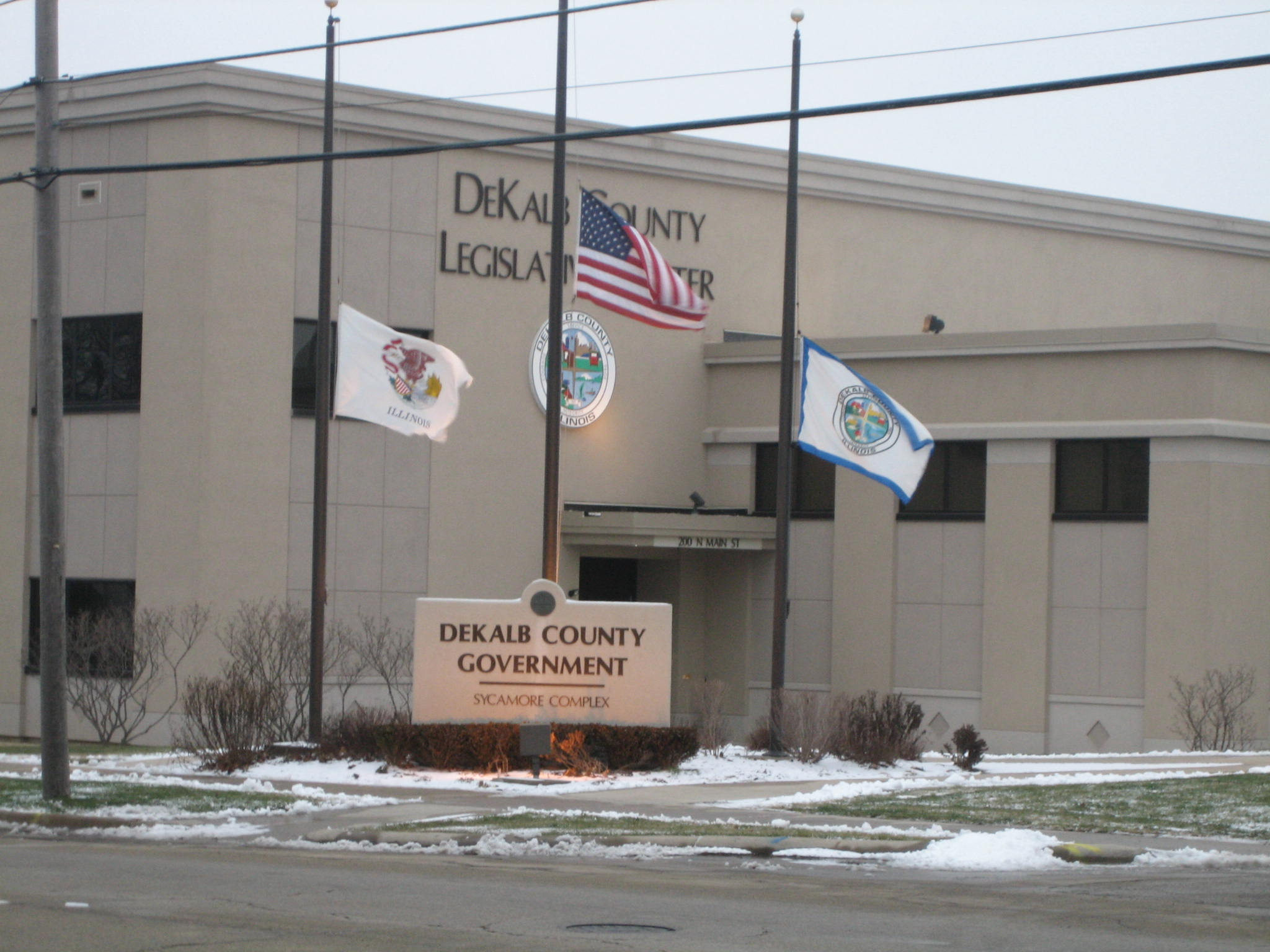 DeKalb County Government Legislative Center, Sycamore, Illinois.